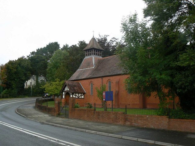 Church in Llwydcoed